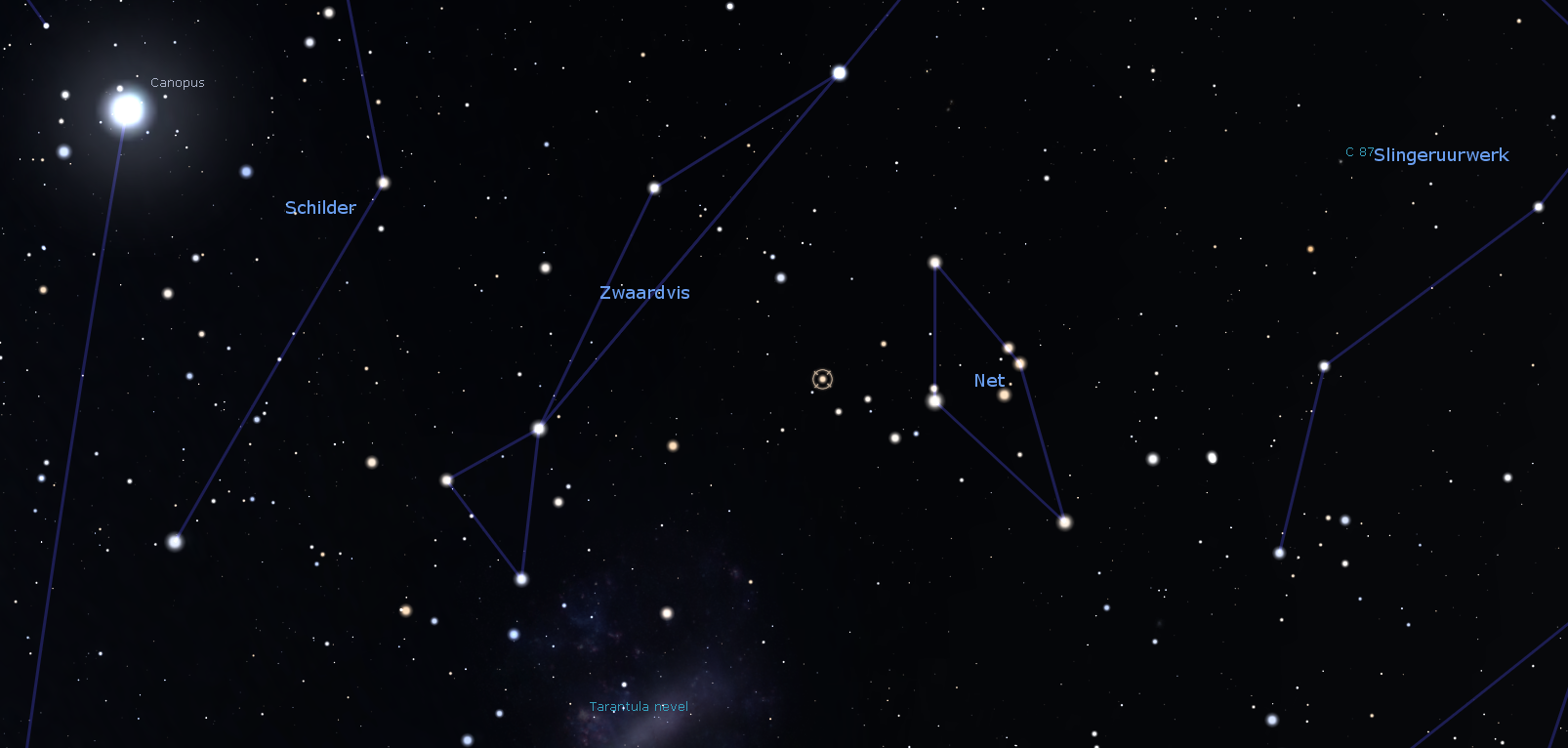 The surroundings of the star R Doradus, made with Stellarium